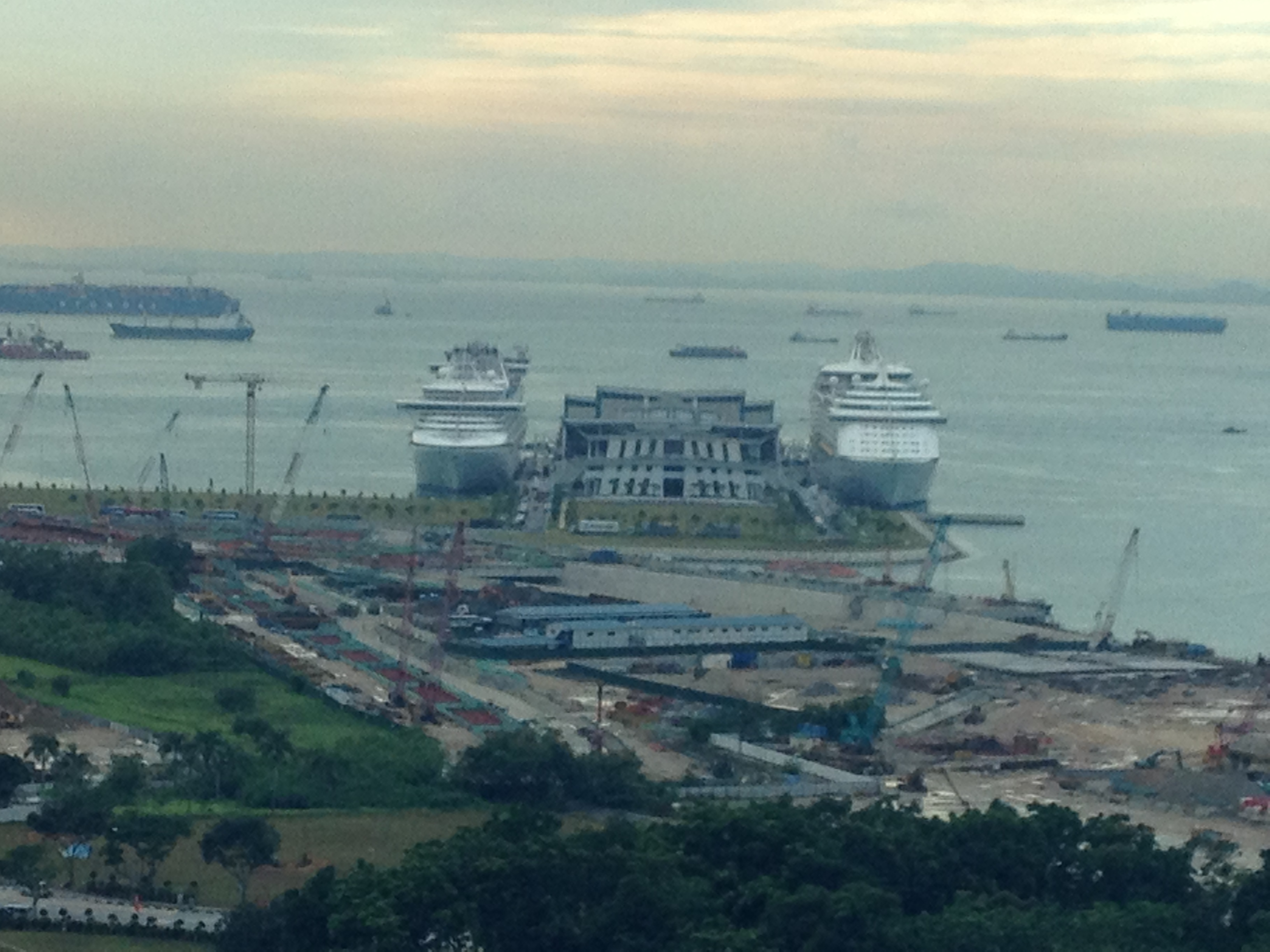 Two ships - Diamond Princess and Voyager of the Seas. Picture is my own work - ship facts from: Taken with iphone - lowres for thumbnail only. Will try to take a better picture shortly.